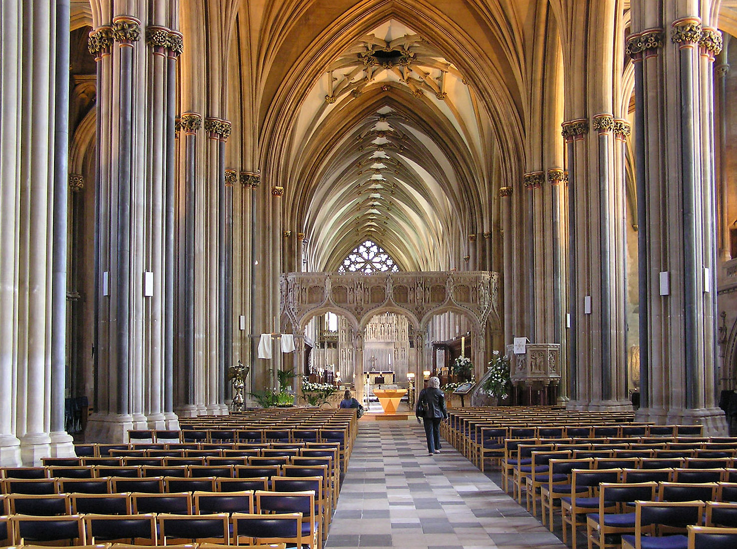 Bristol Cathedral nave.